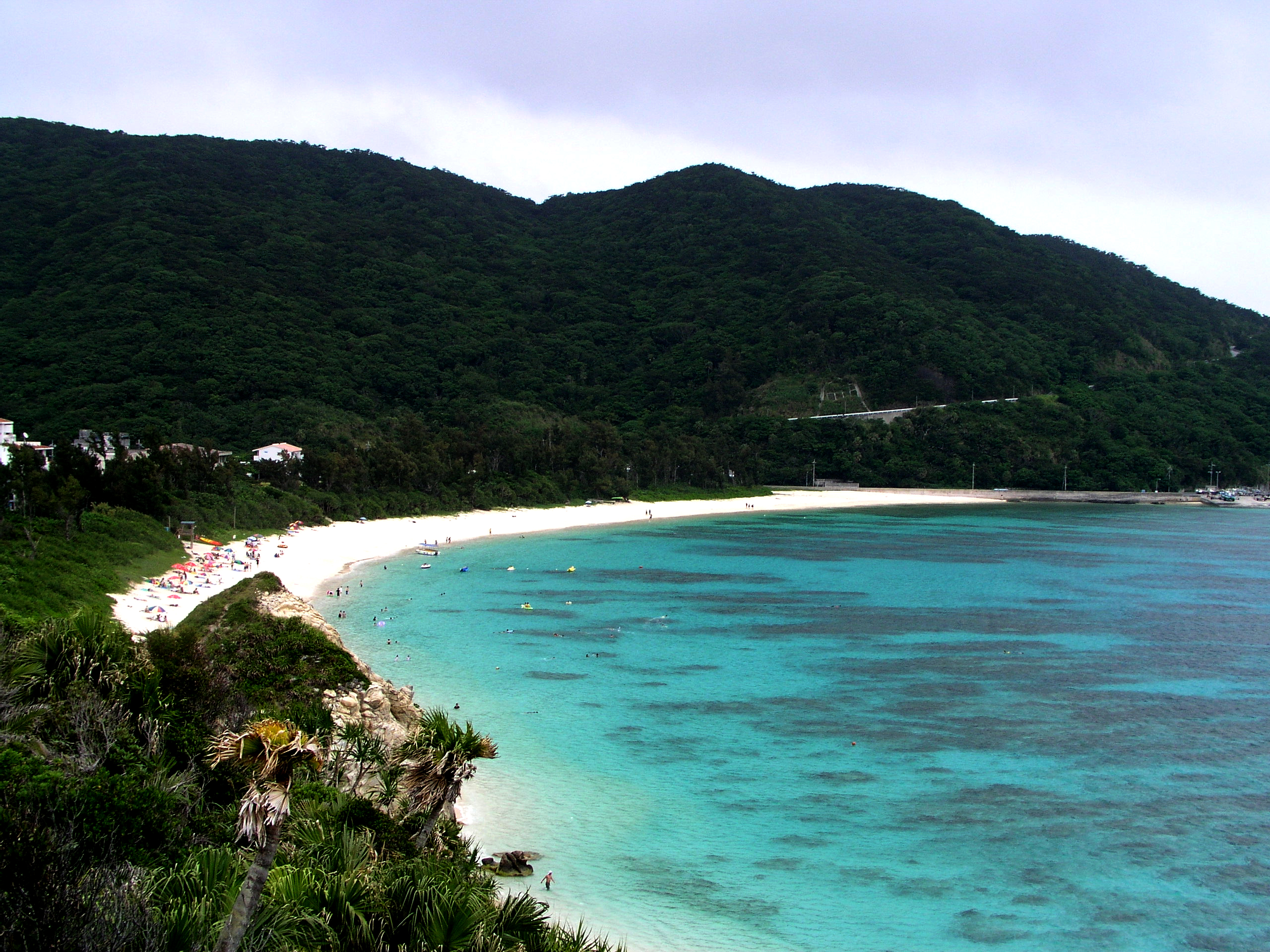 Aharen beach, Tokashiki island in Okinawa, Japan.